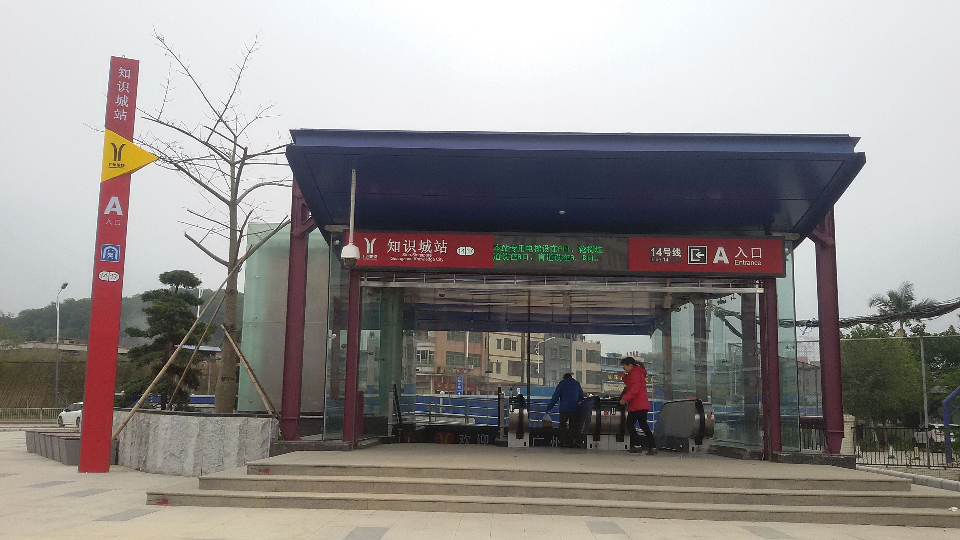 Exit A for Sino-Singapore Knowledge City Station in Guangzhou Metro.